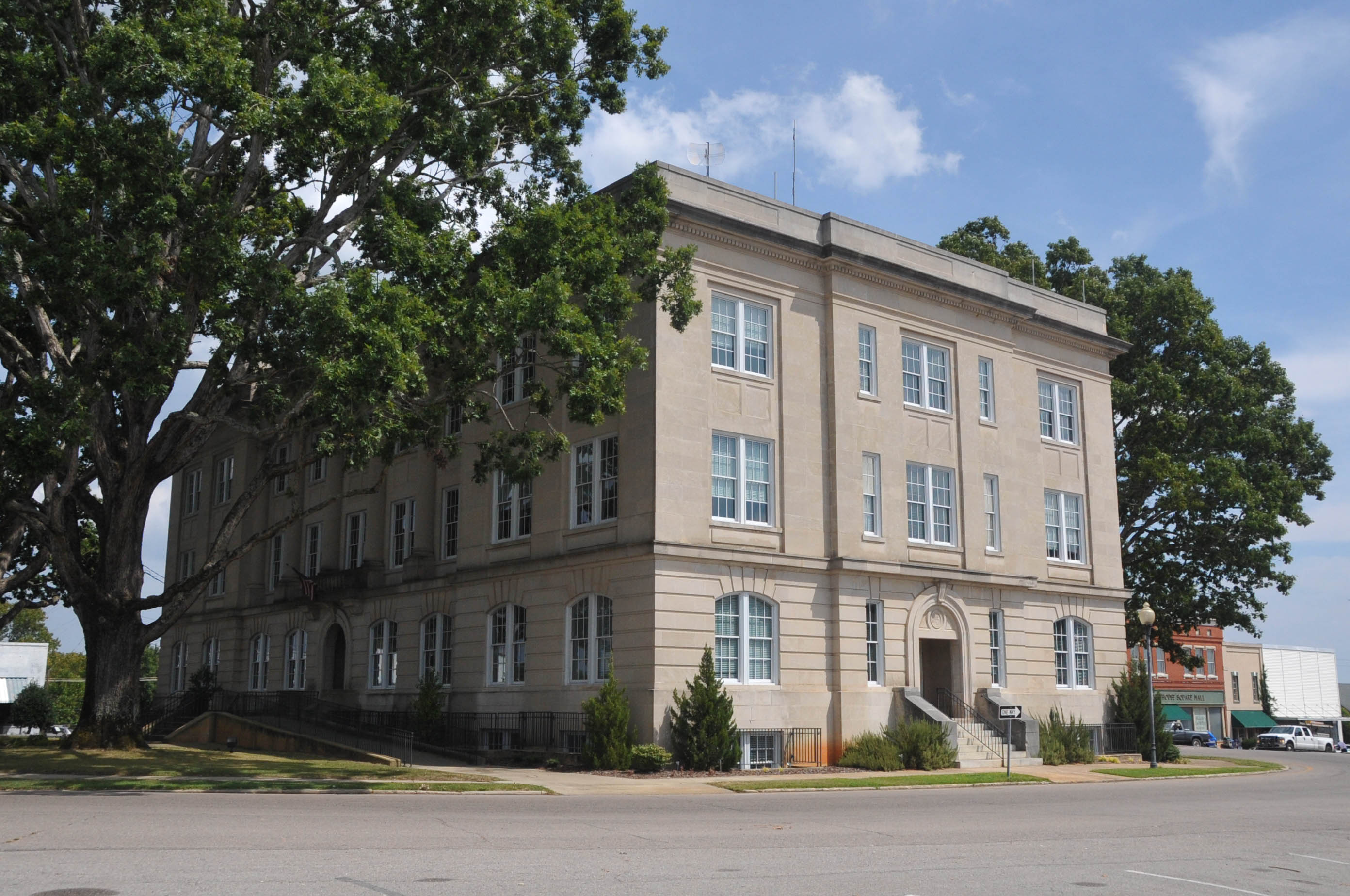 1922 VICTORIAN RENAISSANCE